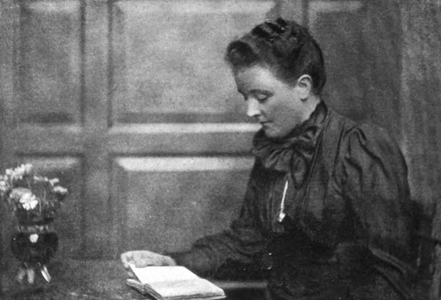 Black and white portrait of American author Sarah Orne Jewett, reading from a book. Image from Literary Pilgrimages in New England to the Homes of Famous Makers of American Literature... by Edwin M. Bacon. New York: Silver, Burdett and Company, 1902: p. 129